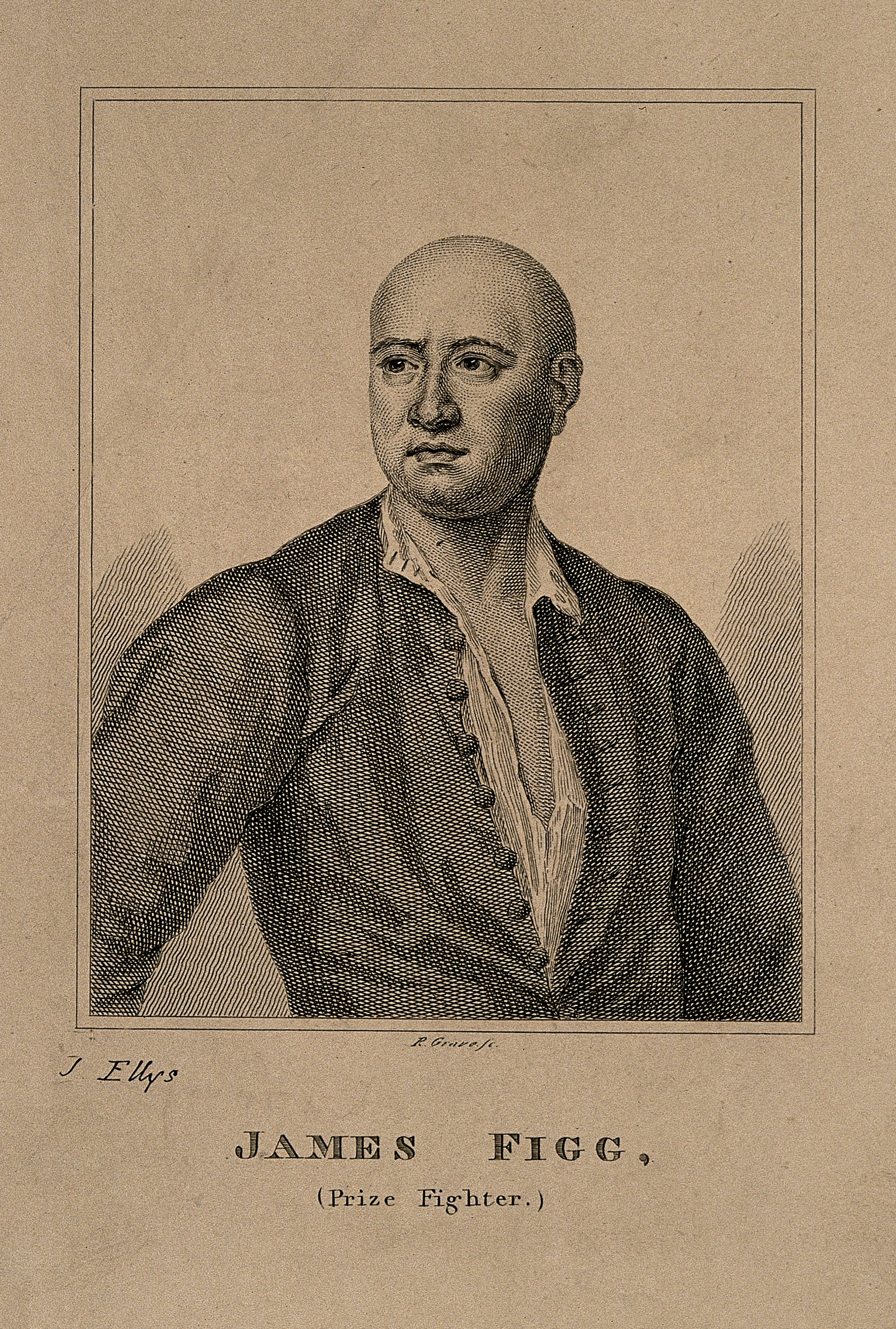 James Figg, a pugilist. Line engraving by R. Graves, after J. Ellys. Iconographic Collections Keywords: figg, james, d. 1734; James Figg; John Ellys; portrait prints; Boxing; Robert Graves; etchings